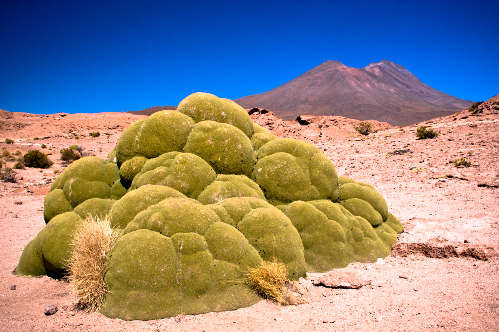 Yareta (Azorella compacta, also known as Azorella yareta in the past) is a tiny flowering plant in the family Apiaceae native to South America, occurring in the Puna grasslands of the Andes in Peru, Bolivia, Chile and the west of Argentina at between 3200 and 4500 metres altitude. Yareta is an evergreen perennial being in leaf all year. The pink or lavender flowers are hermaphrodite (have both male and female organs) and are pollinated by insects. The plant is self-fertile. The plant prefers light (sandy) and well-drained soils. It can grow in nutritionally poor environments, no matter if the soil is acidic, neutral or basic (alkaline). Yareta is well-adapted to high insolation rates which are typical of the highlands, and cannot grow in shade. The plant grows in a very compact way in order to reduce heat losses and very close to ground level where air temperature is one or two degrees Celsius higher than the mean air temperature, this is due to the longwave radiation re-radiated by the soil (which is usually dark gray to black in the Puna). The plan grows at a rate of approximately one millimeter per year, and thus many yaretas are over 3,000 years old.